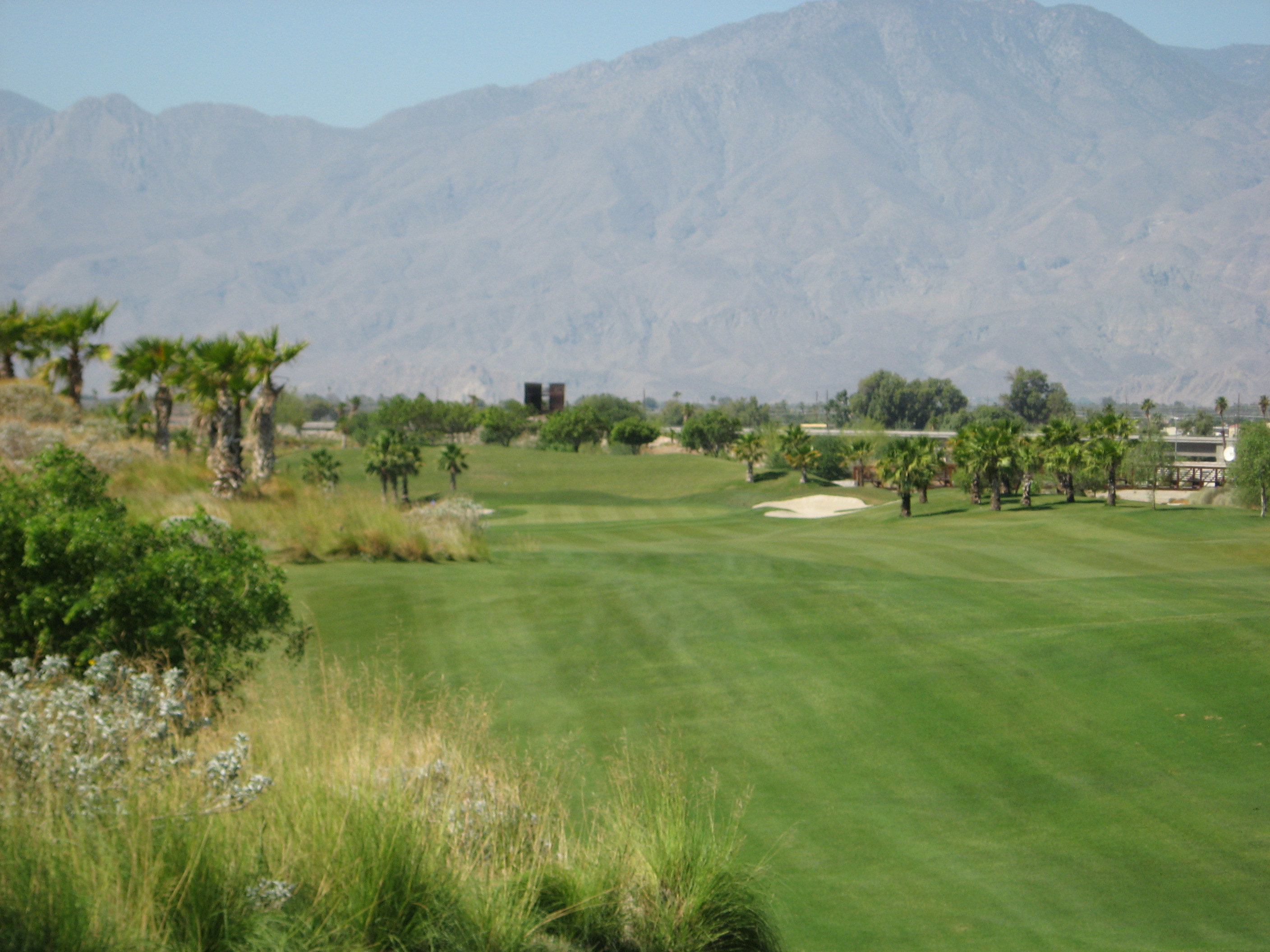 Beautiful Golf Course in Indio, CA